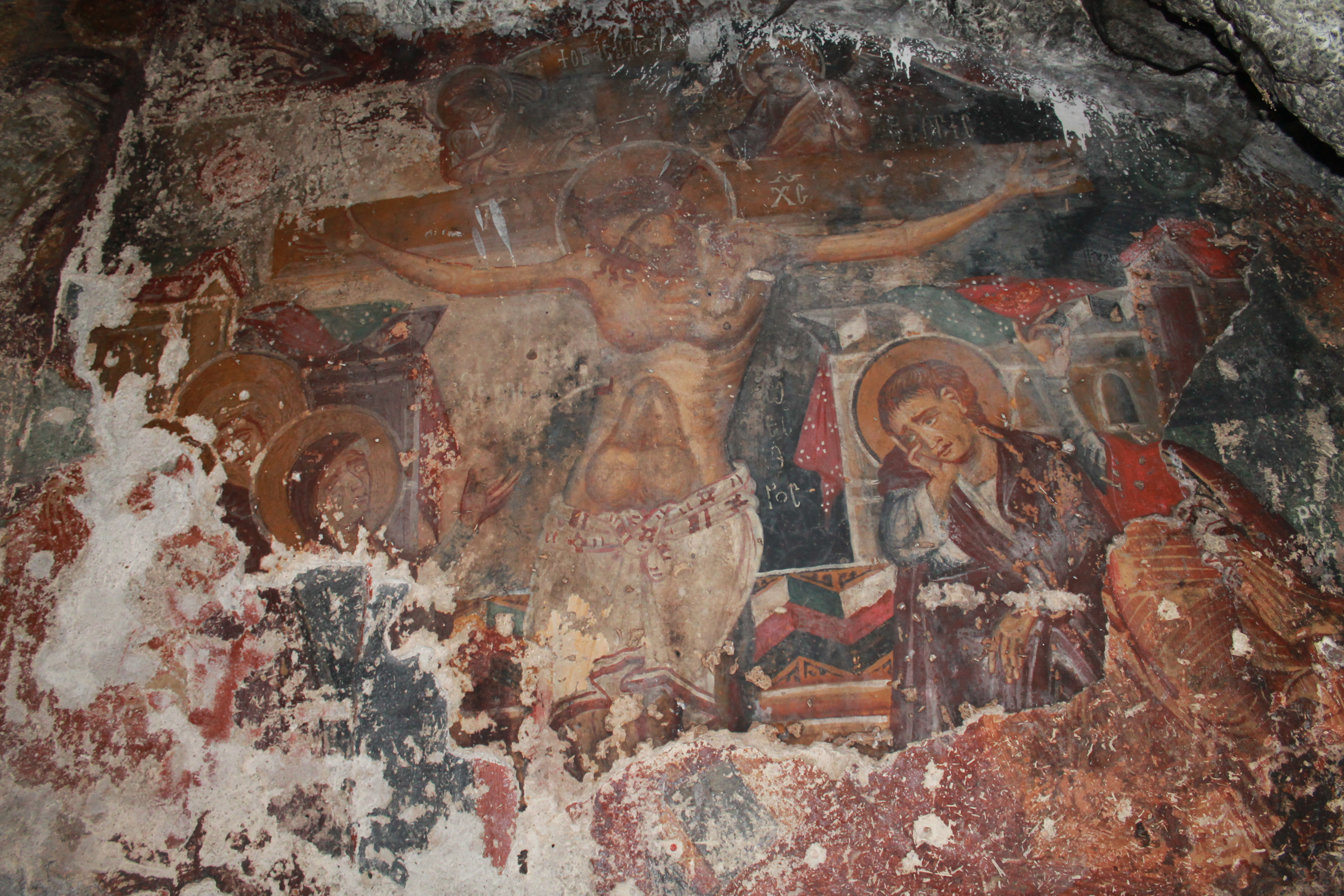 Fresco from the rock church "Ascension", near the village Achladochori (Krushevo), Northern Greece